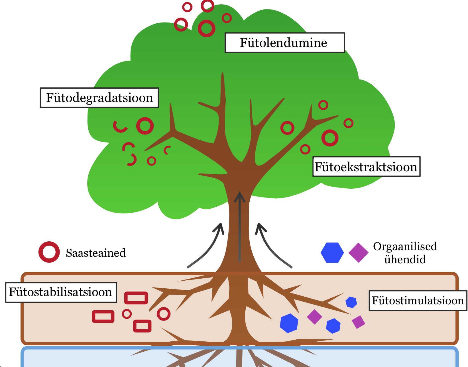 Phytoremediation